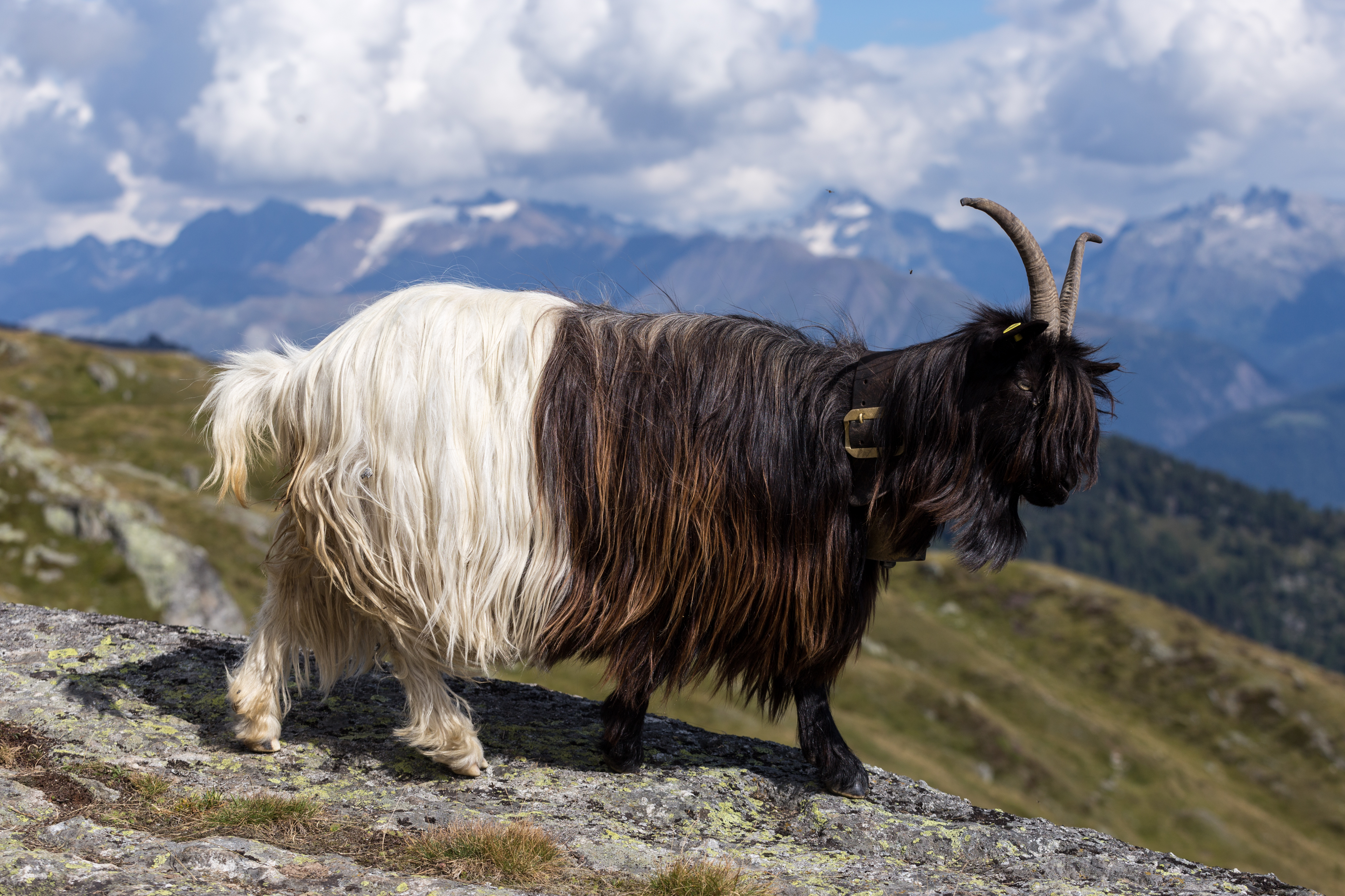 Adult Valais Blackneck Goat on Belalp, Canton of Valais, Switzerland